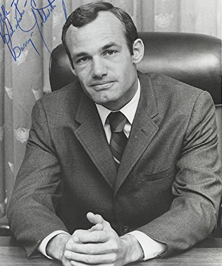 Former U.S. Congressman, Barry Goldwater Jr.